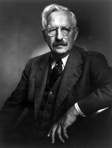 Henry Marshall Tory (January 11, 1864 – February 6, 1947), first President of Carleton University in Ottawa, Canada. Contents 1 Source 2 Licensing 3 Licensing 4 Original upload log Source Carleton University Magazine Licensing Photograph was created before January 1, 1949 so license is